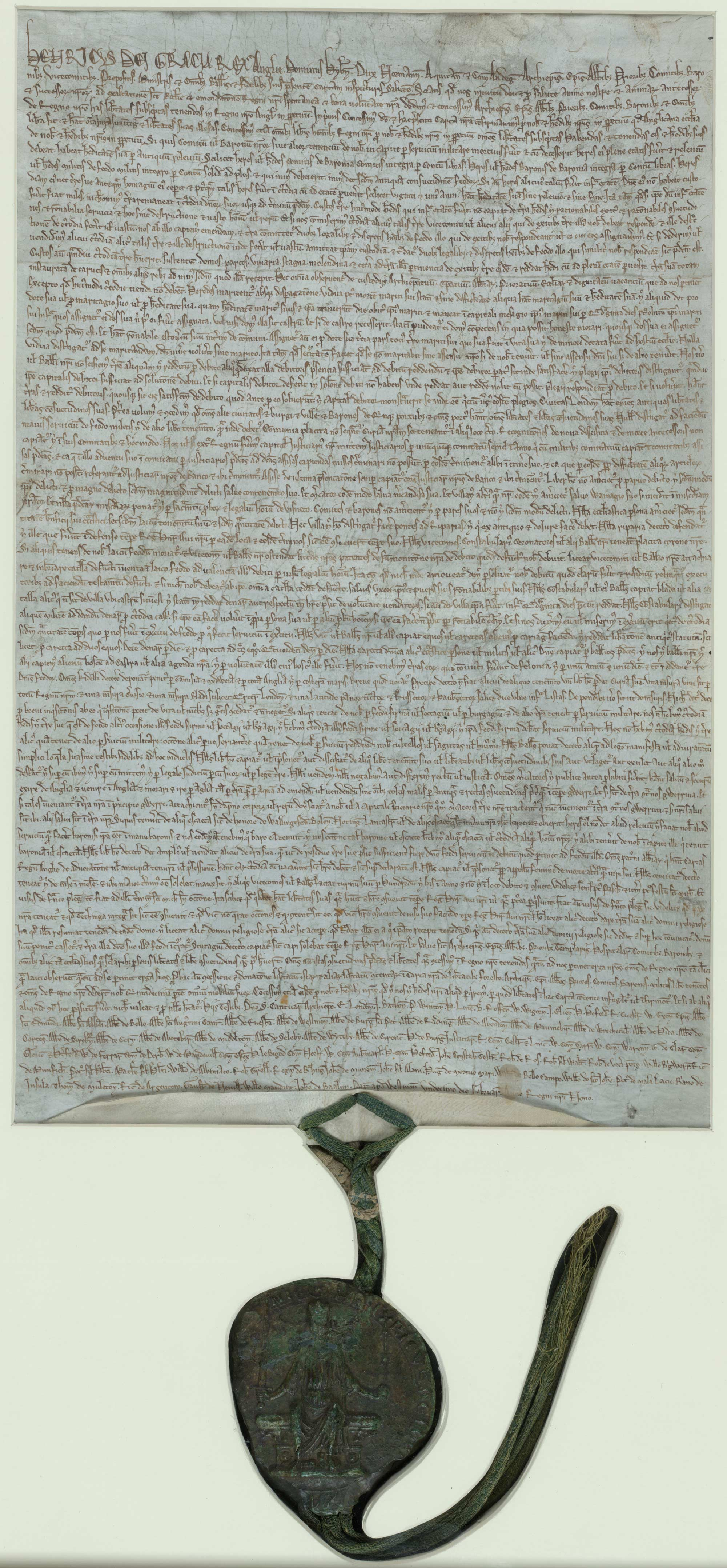 1225 Magna Carta, Additional MS 46144 Released under British Library copyright statement "Public Domain Mark 1.0" at for more details.